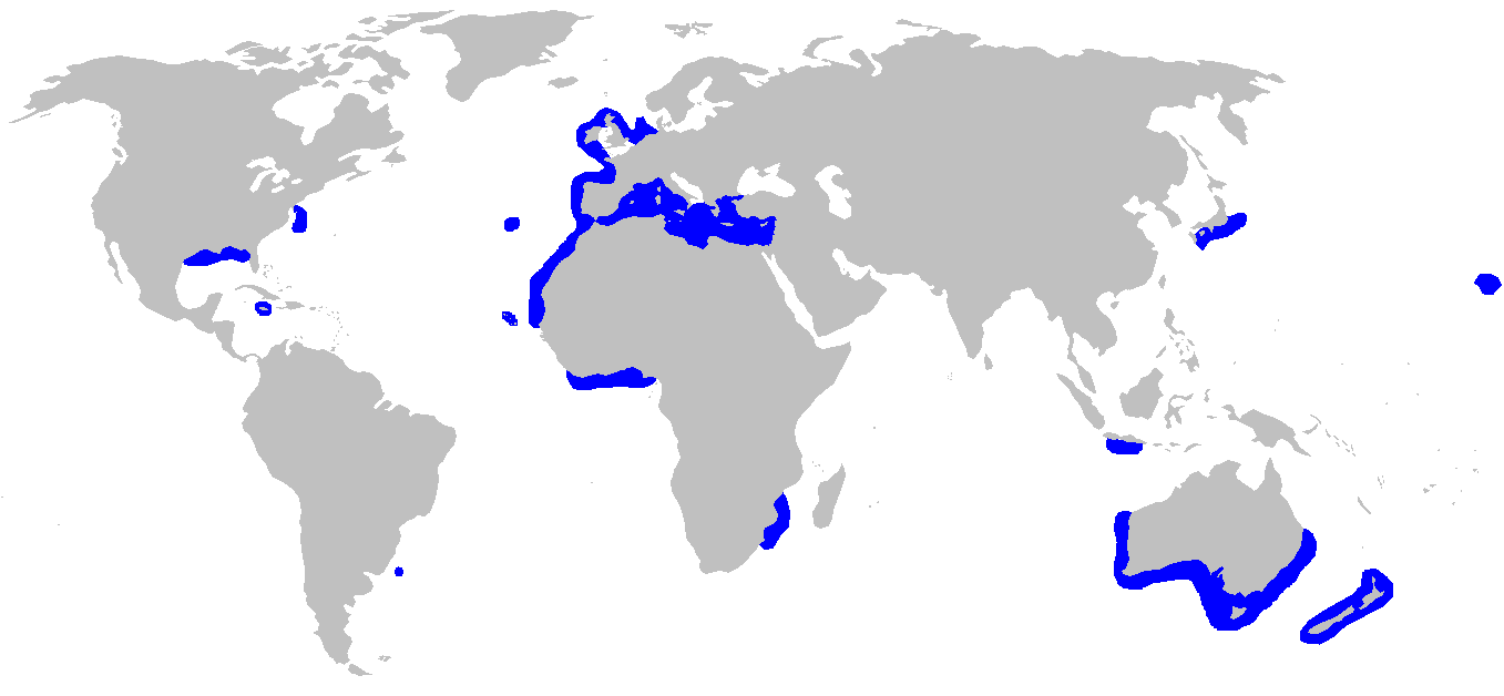 Distribution map for Dalatias licha